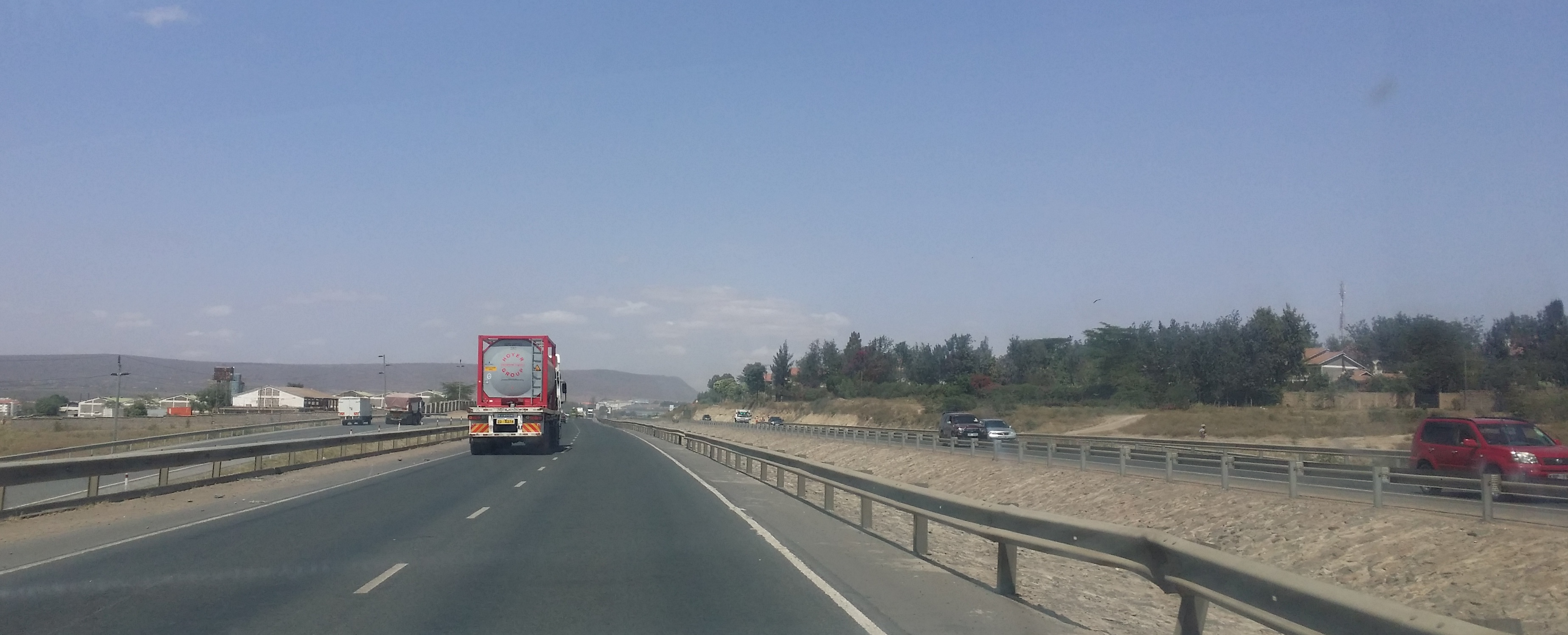 The A109, Kenya Kiswahili: Barabara ya A109